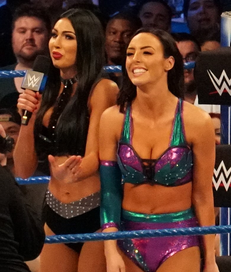 The IIconics (WWE Smackdown, April 10, 2018)